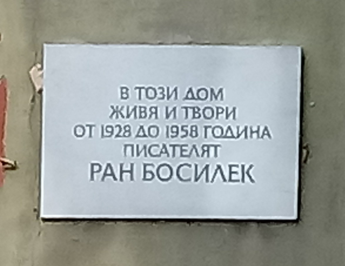 Ran Bosilek home with memorial plaque, 10 Tsar Ivan-Asen II Str., Sofia